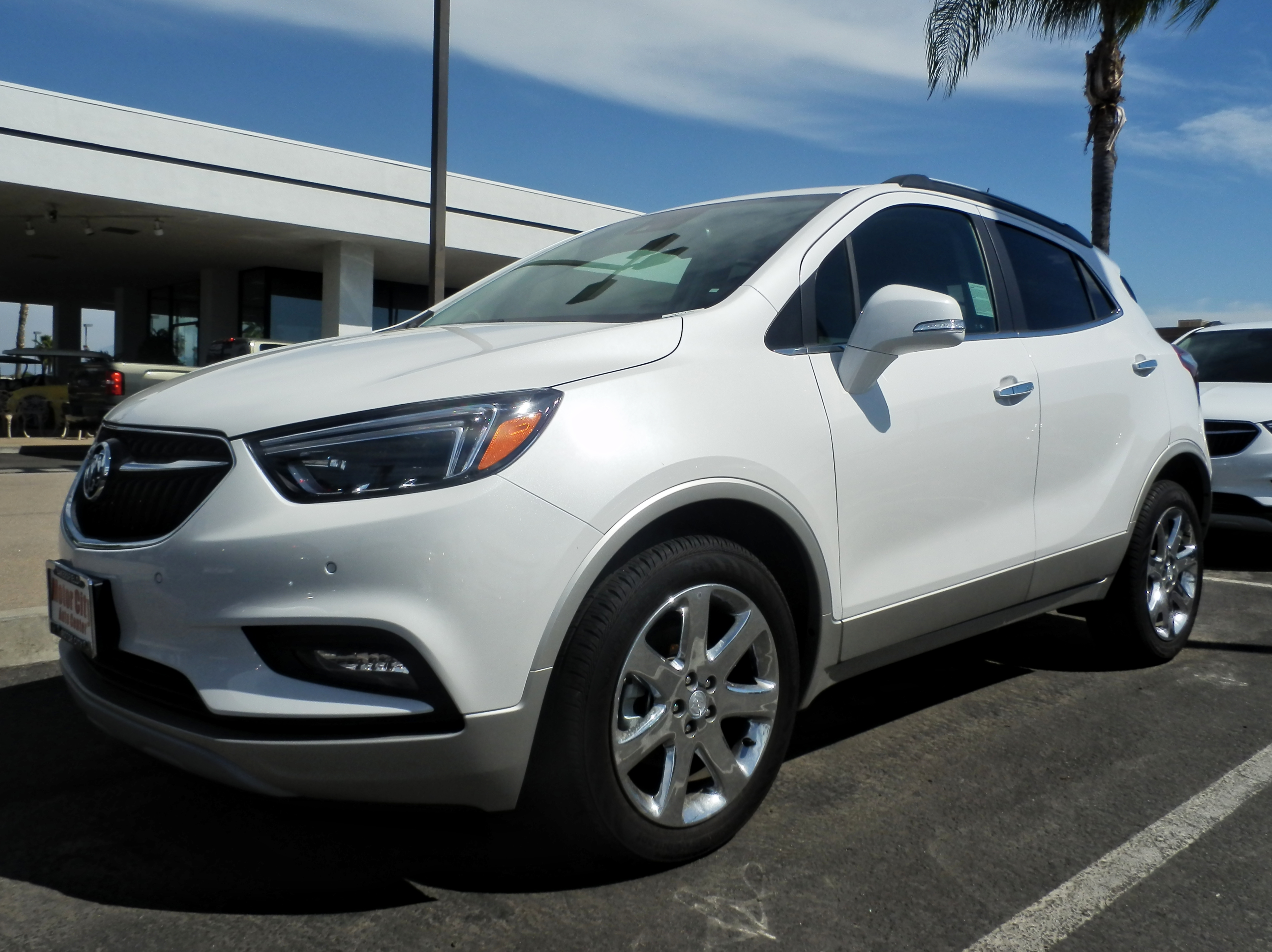 Buick Encore in Bakersfield